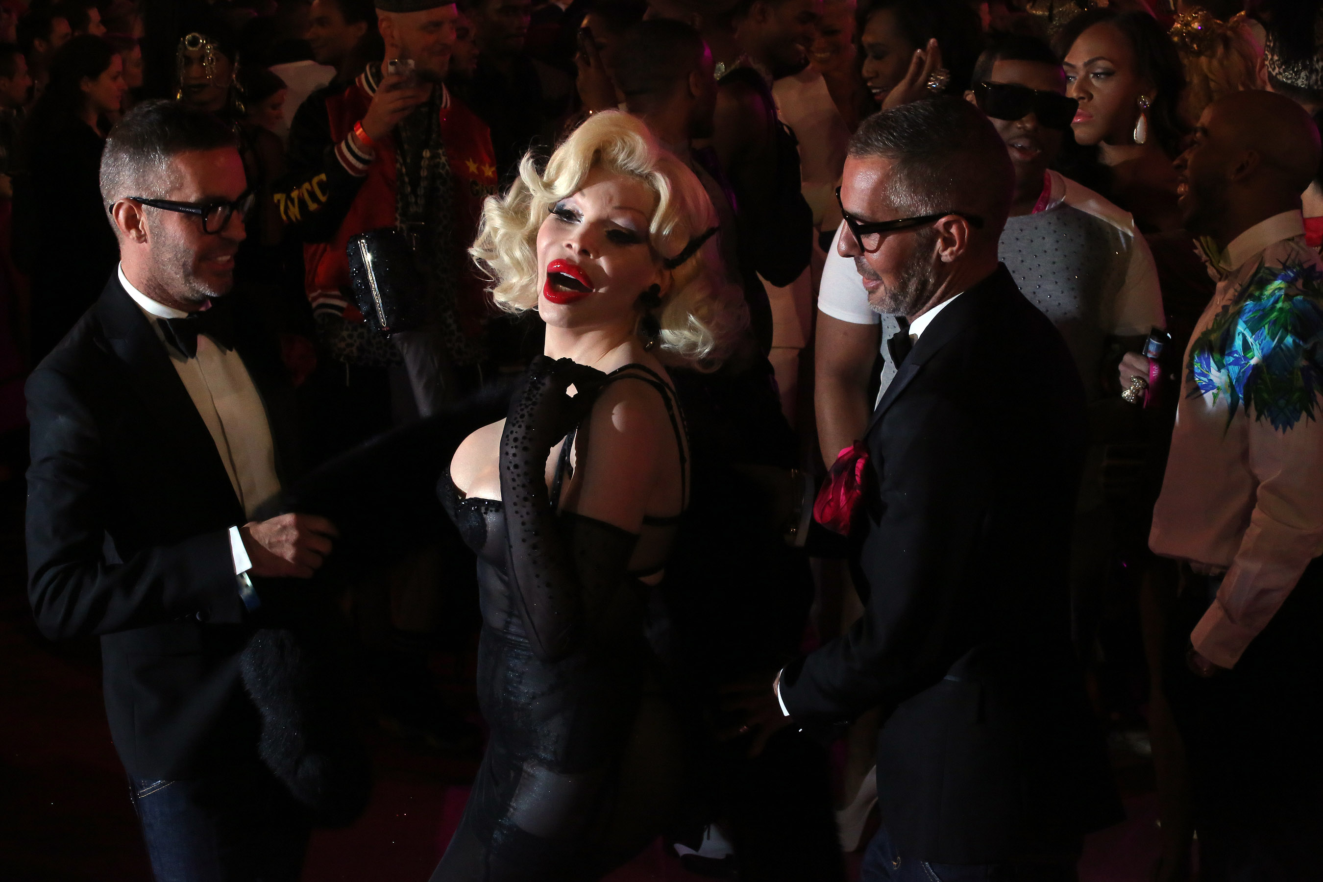 Amanda Lepore and Dean and Dan Caten (DSQUARED2) on the 'magenta carpet' at Life Ball 2013 at the square in front of the city hall of Vienna, Vienna, Austria.